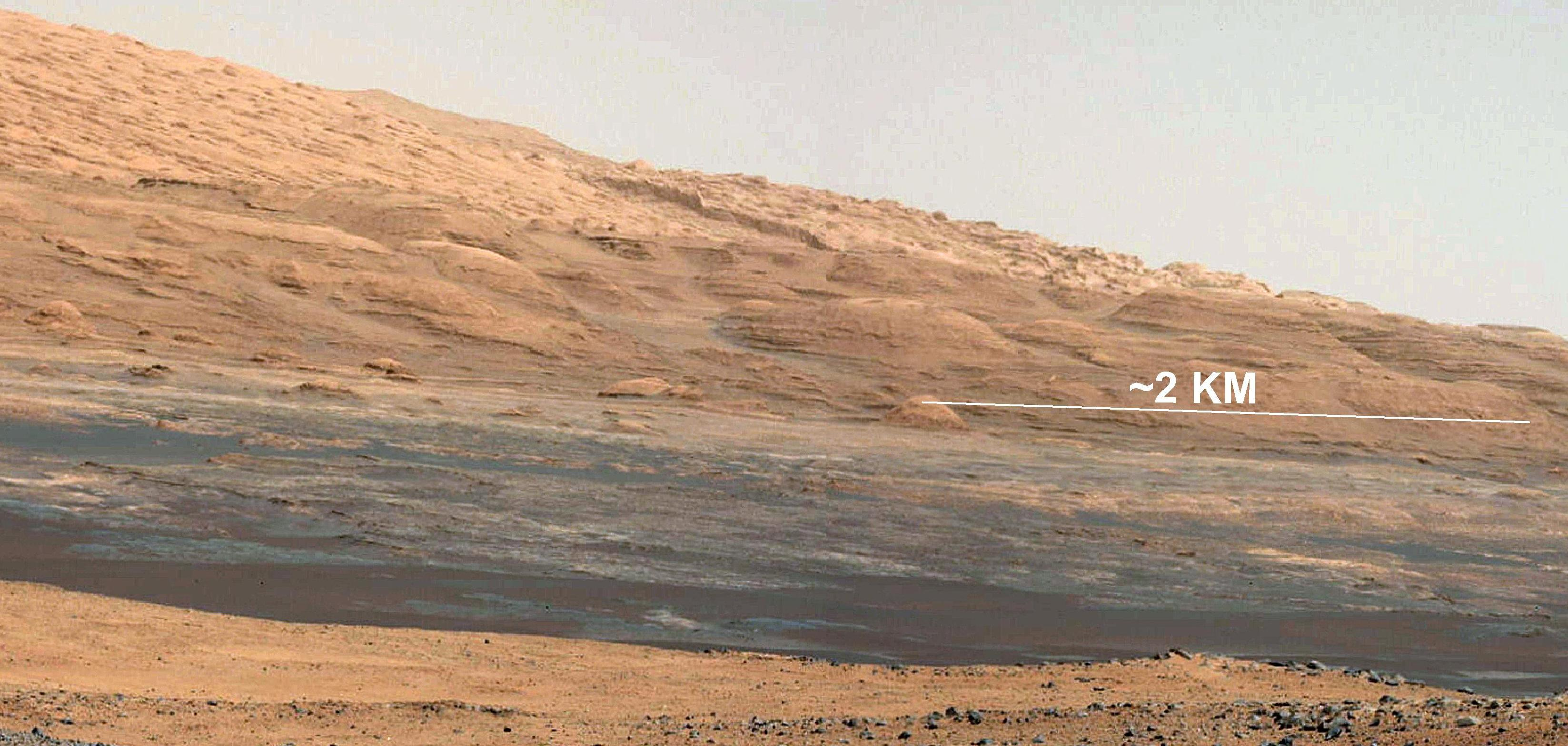 08.17.2012 The Promised Land This image (cut out from a mosaic) shows the view from the landing site of NASA's Curiosity rover toward the lower reaches of Mount Sharp, where Curiosity is likely to begin its ascent through hundreds of feet (meters) of layered deposits. The lower several hundred feet (meters) show evidence of bearing hydrated minerals, based on orbiter observations. The terrain Curiosity will explore is marked by hills, buttes, mesas and canyons on the scale of one-to-three story buildings, very much like the Four Corners region of the western United States. A scale bar indicates a distance of 1.2 miles (2 kilometers). Curiosity's 34-millimeter Mast Camera acquired this high-resolution image on Aug. 8, 2012 PDT (Aug. 9 EDT). This image shows the colors modified as if the scene were transported to Earth and illuminated by terrestrial sunlight. This processing, called "white balancing," is useful to scientists for recognizing and distinguishing rocks by color in more familiar lighting. Image Credit: NASA/JPL-Caltech/MSSS